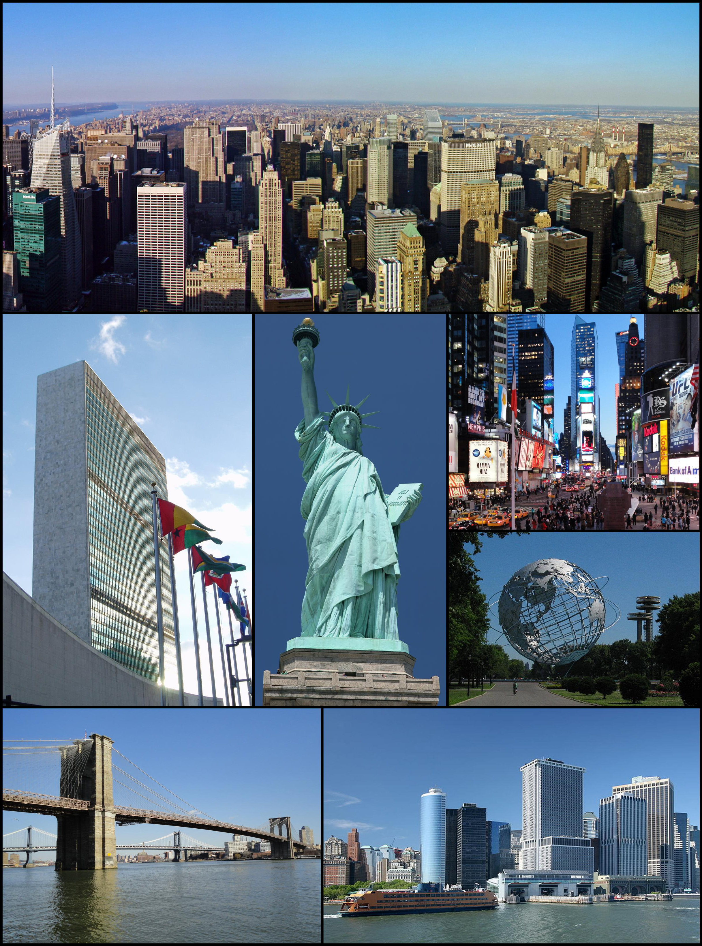 From top left: Midtown Manhattan, United Nations headquarters, the Statue of Liberty, Times Square, the Unisphere in Flushing Meadows - Corona Park, the Brooklyn Bridge, and Lower Manhattan with the Staten Island Ferry